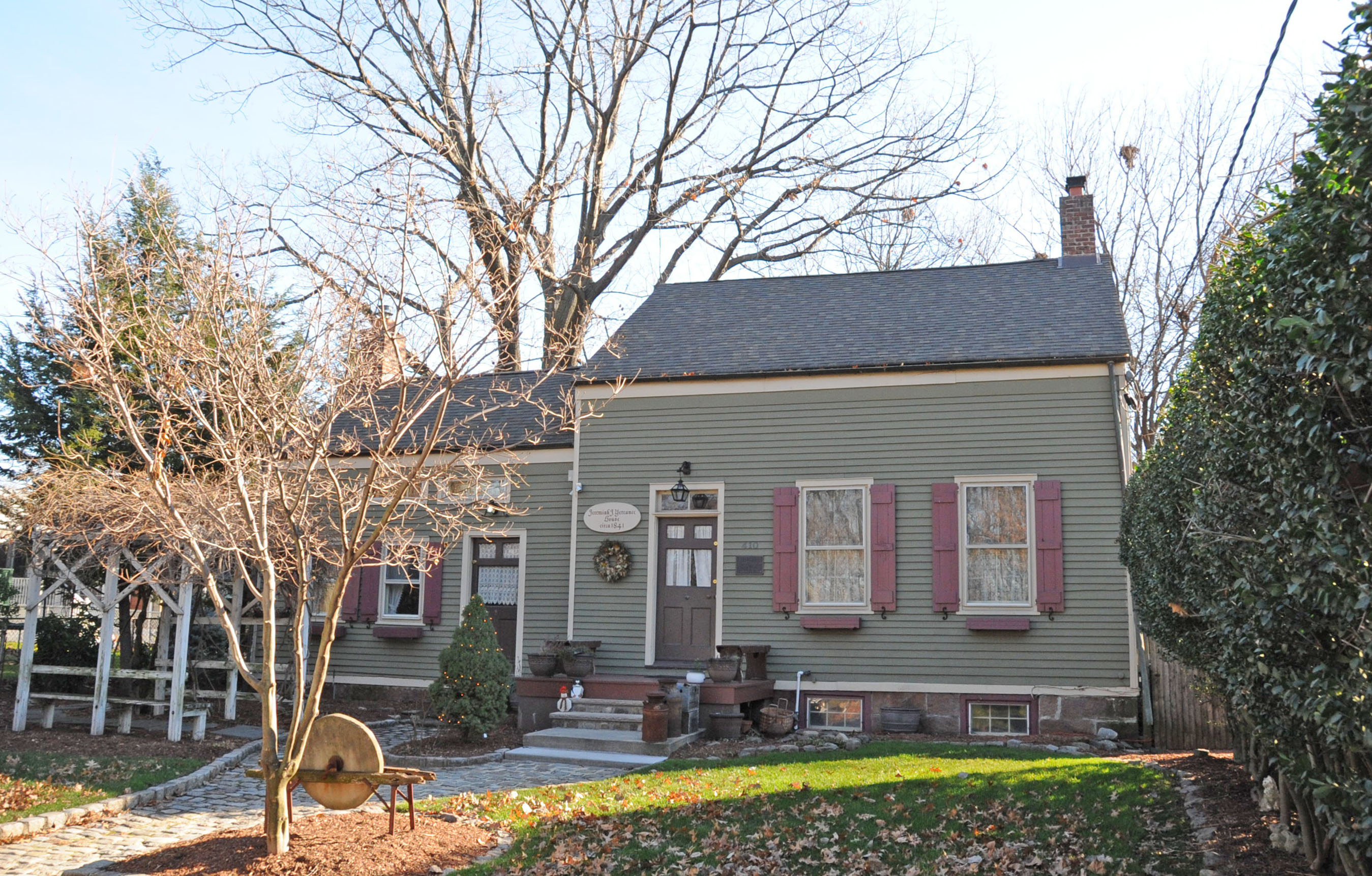 BUILT 1841 AND SERVED AS THE RESIDENCE OF THE ADJACENT RIVER ROAD SCHOOL